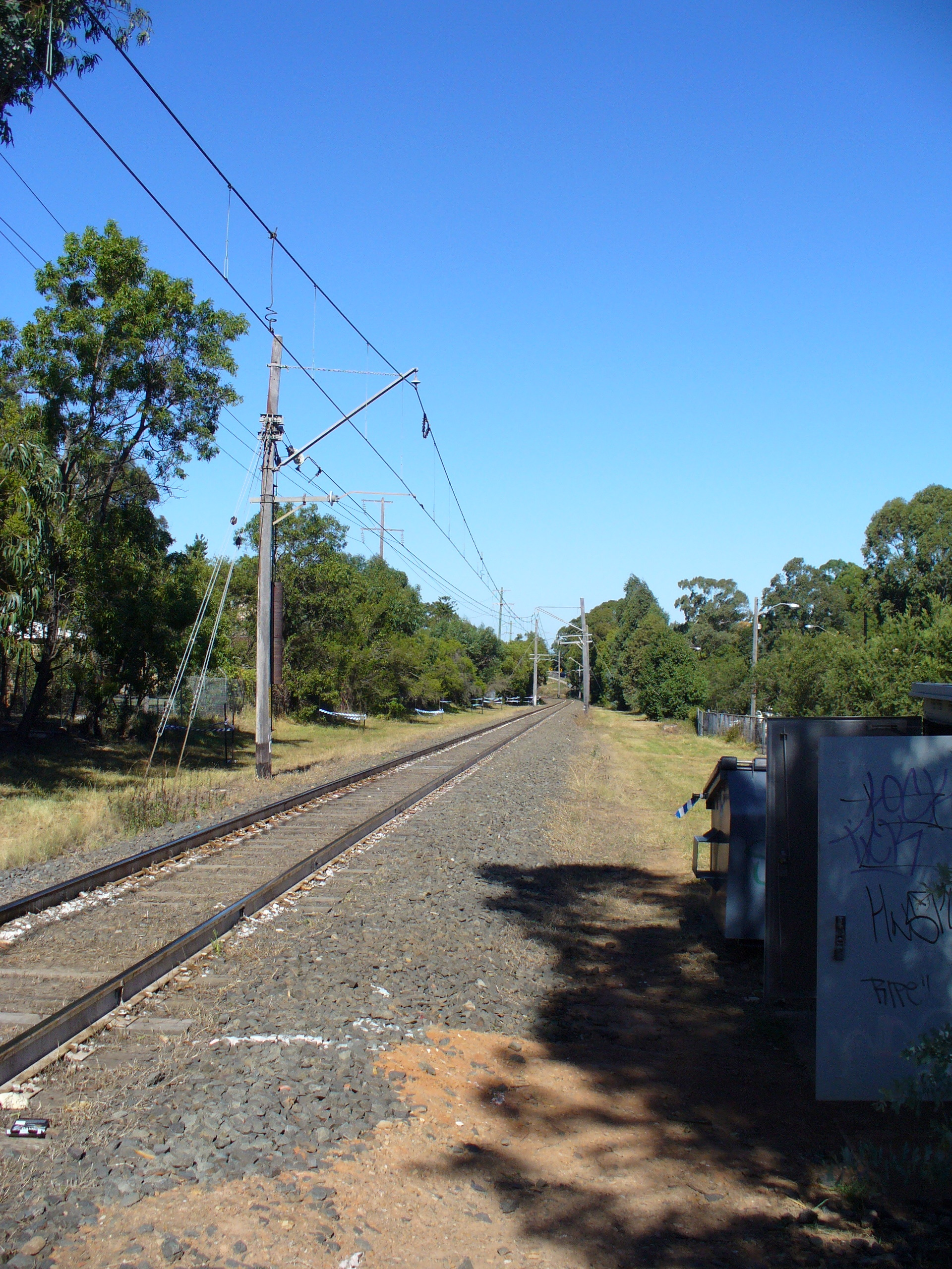 Carlingford Line at Telopea railway station, Sydney